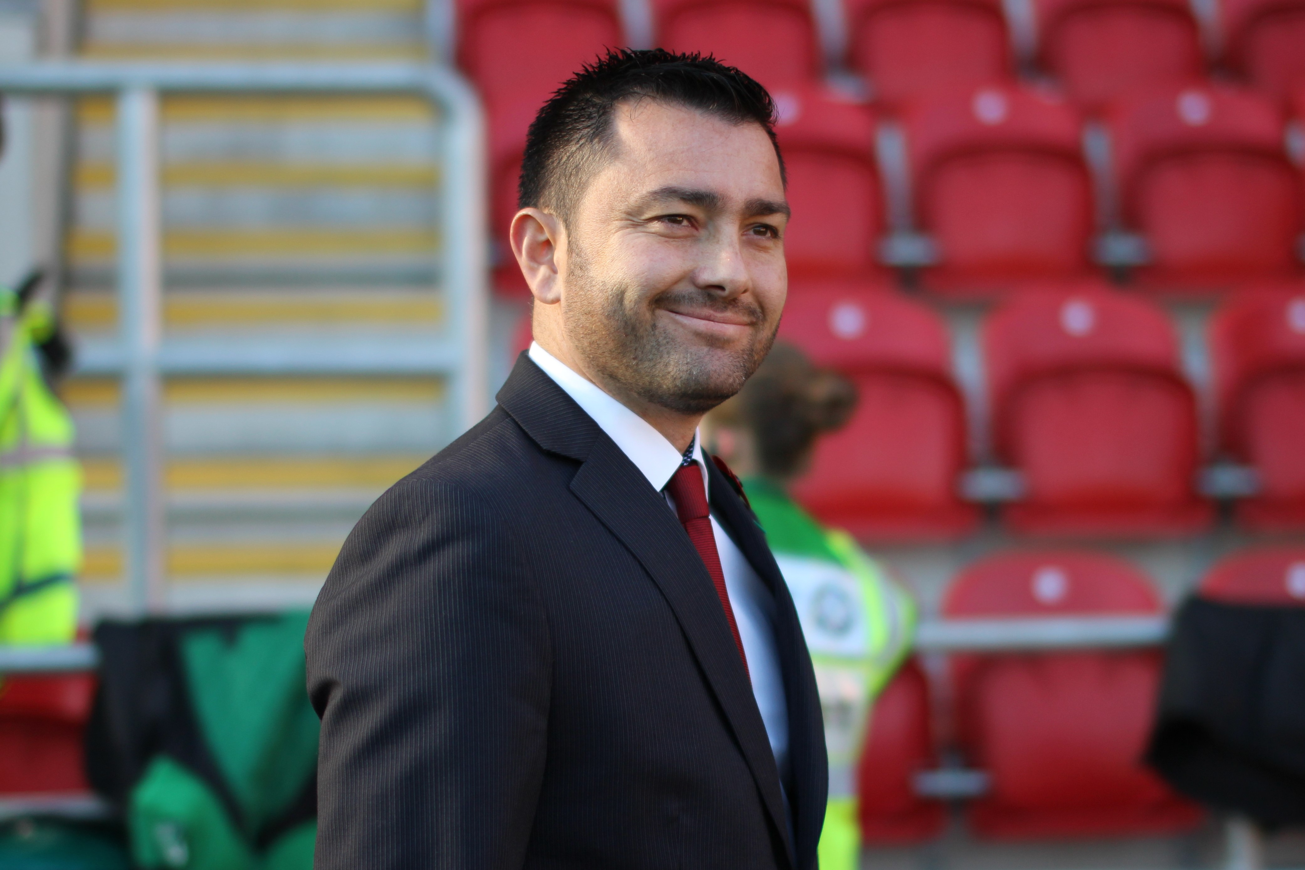 Arsenal Ladies manager Pedro Martinez Losa before the game against Notts County.